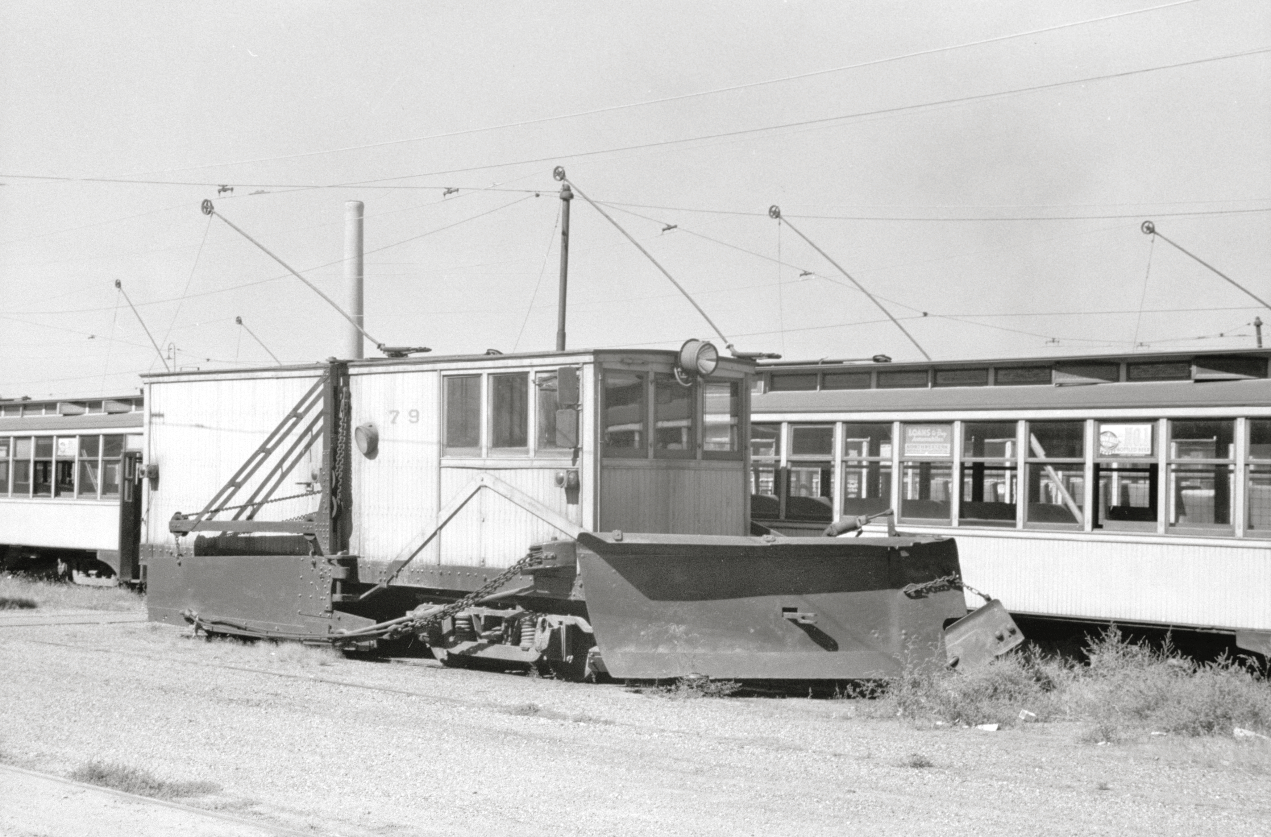 Snowplow in streetcar yard, Minneapolis, Minnesota